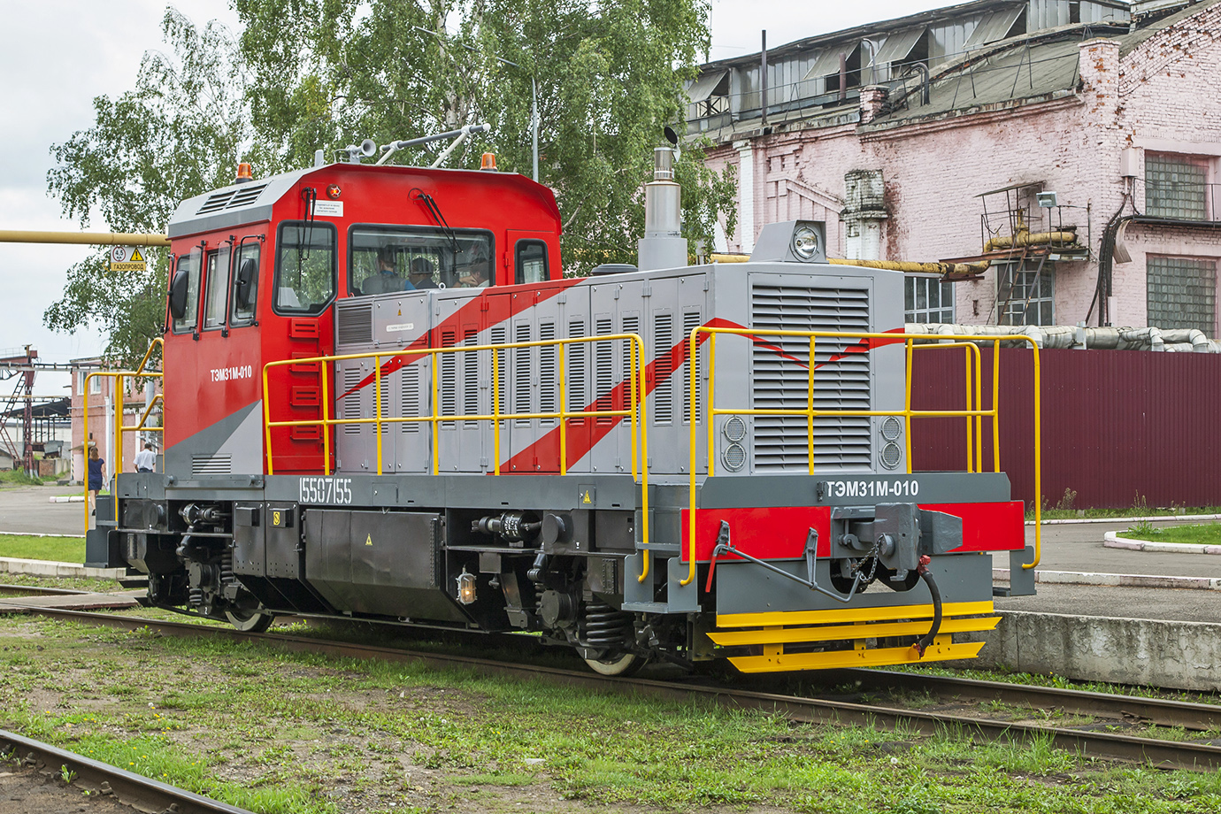 Diesel locomotive TEM31M-010 Russia, Yaroslavl region, Yaroslavl electric locomotive overhauling plant named after B. P. Beshchev